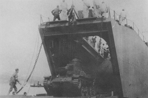 Japanese light tank Type 95 Ha-Go